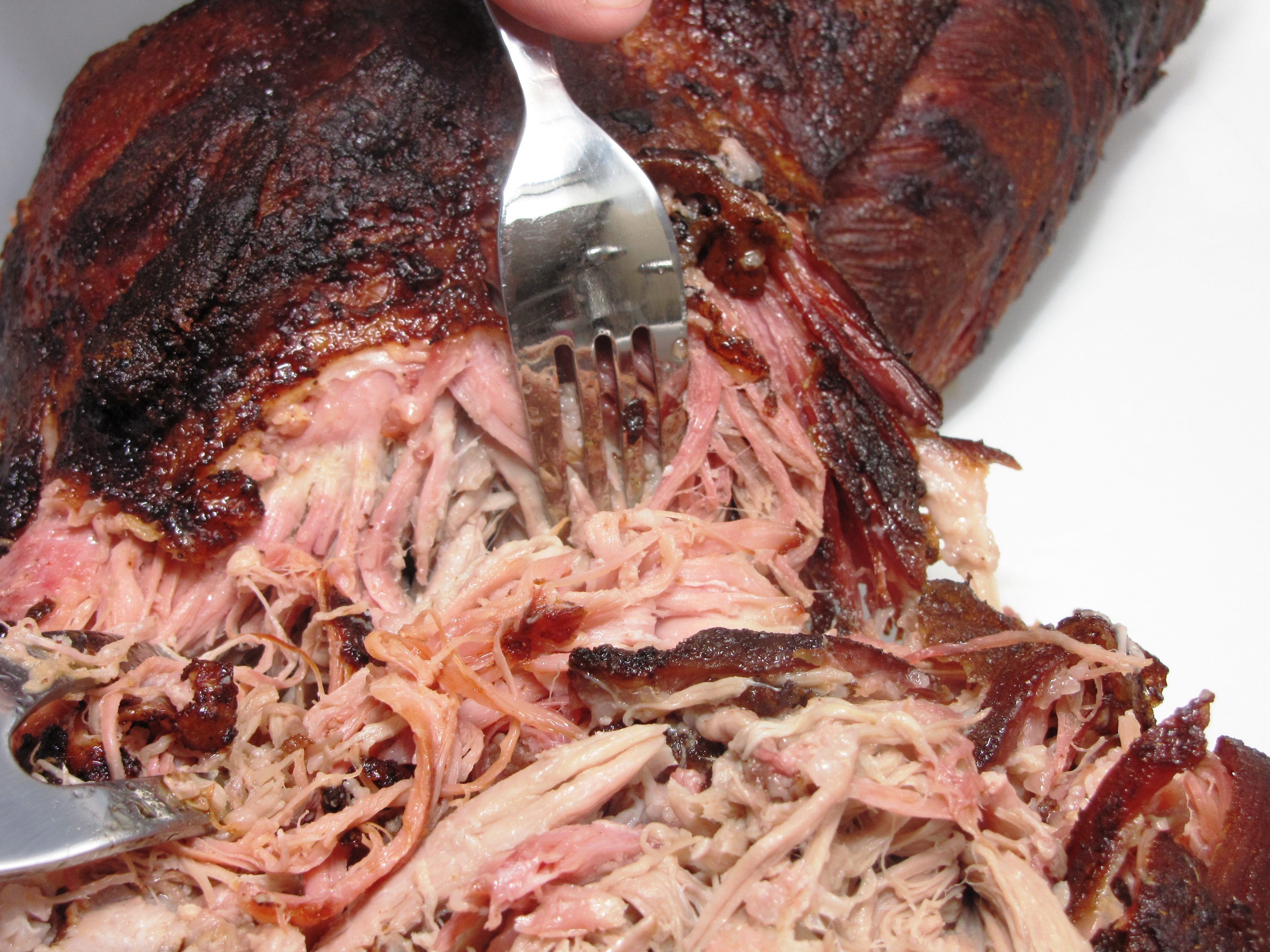 barbecued pulled pork while pulling